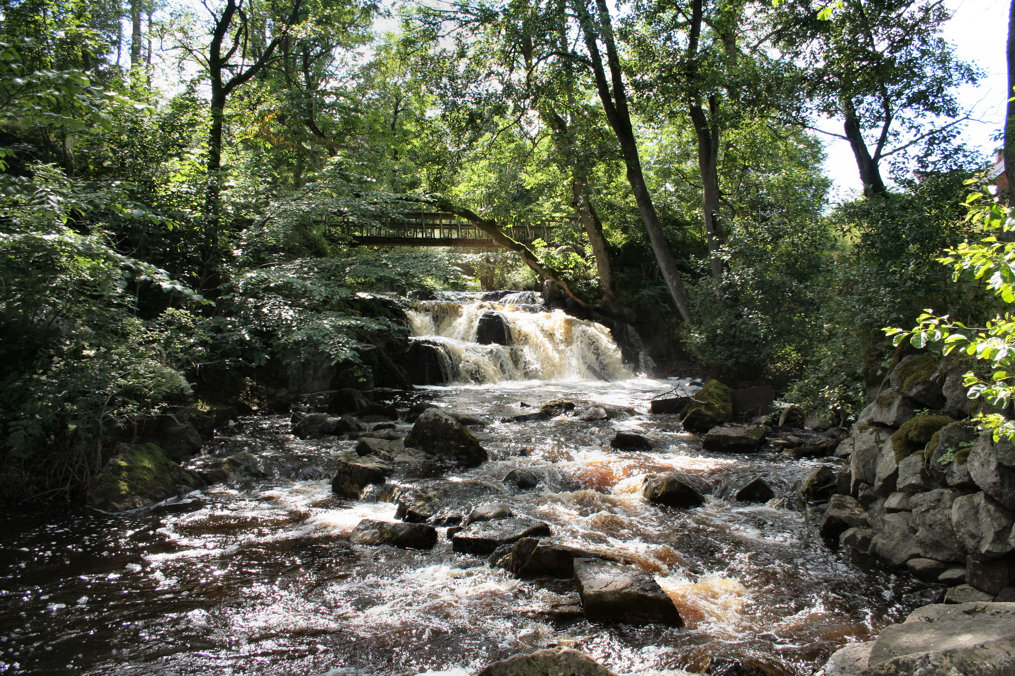 Picture of the Hallamölla waterfall near Eljaröd in Scania (Sweden).